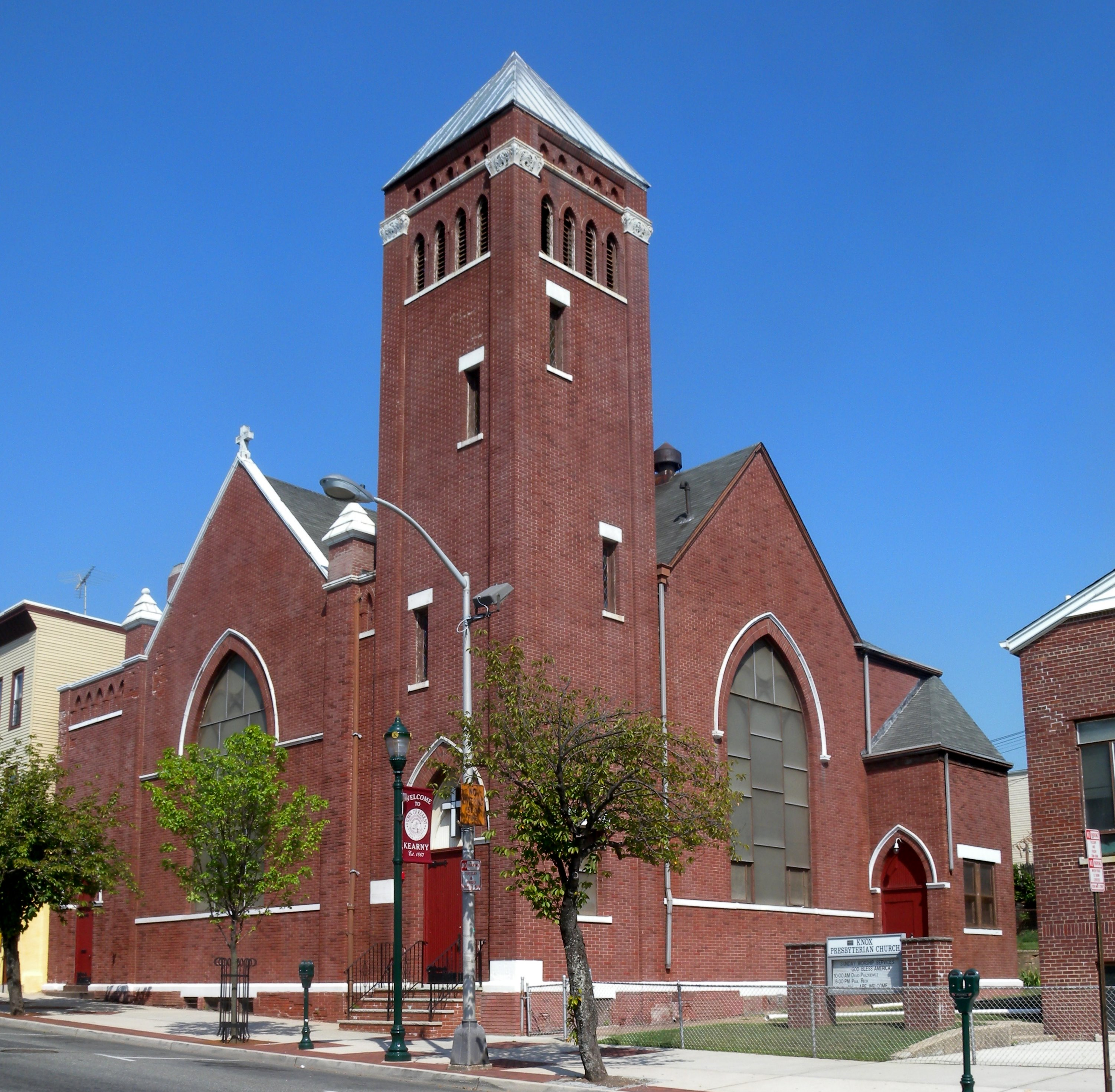 Looking northeast at Knox Presbyterian Church on a sunny early afternoon.